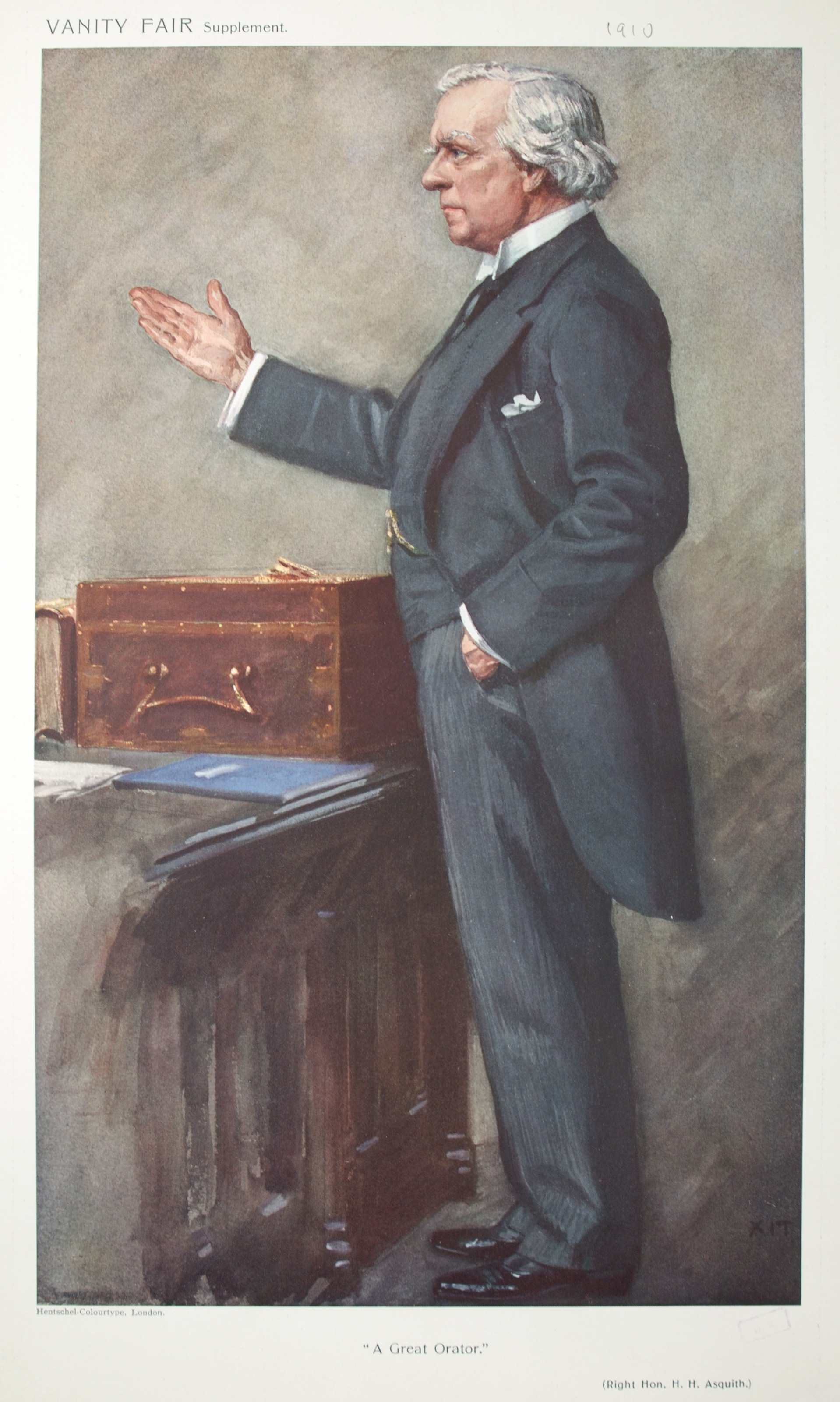 Caricature of Herbert Henry Asquith. Caption read "A Great Orator".